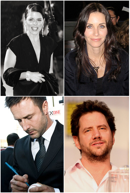 Significant cast members of the Scream film series, actors to have appeared in more than one film including (left to right, starting with the top row) Neve Campbell, Courteney Cox, David Arquette and Jamie Kennedy.